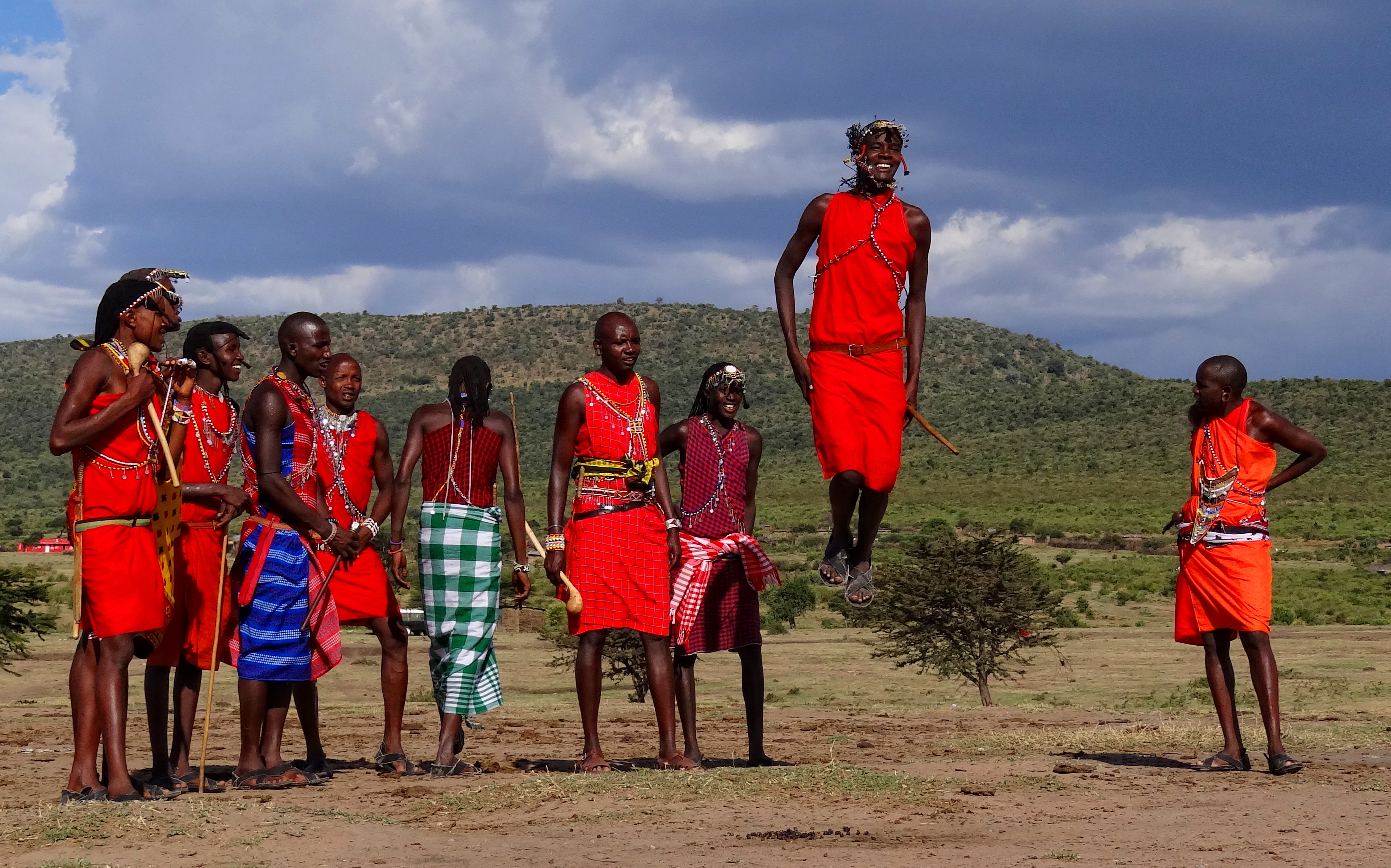 A group of Maasai men showing their traditional "jumping dance".